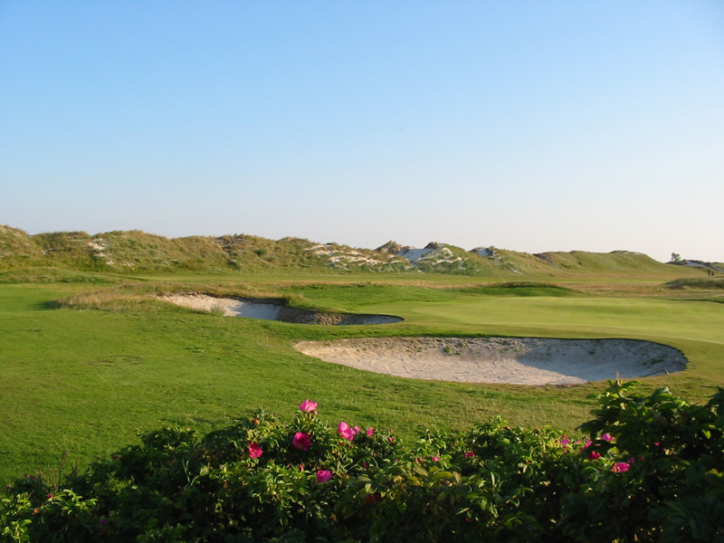 Linksland at Falsterbo Golf Course, Schweden